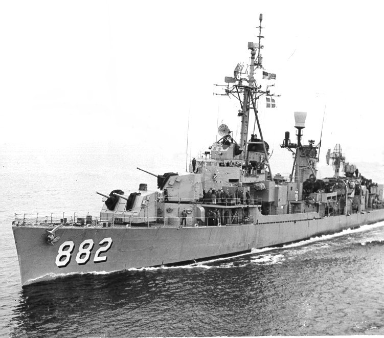 The U.S. Navy radar picket destroyer USS Furse (DDR-882) underway. The photo was taken before 1963, when Furse underwent the FRAM I modernization.